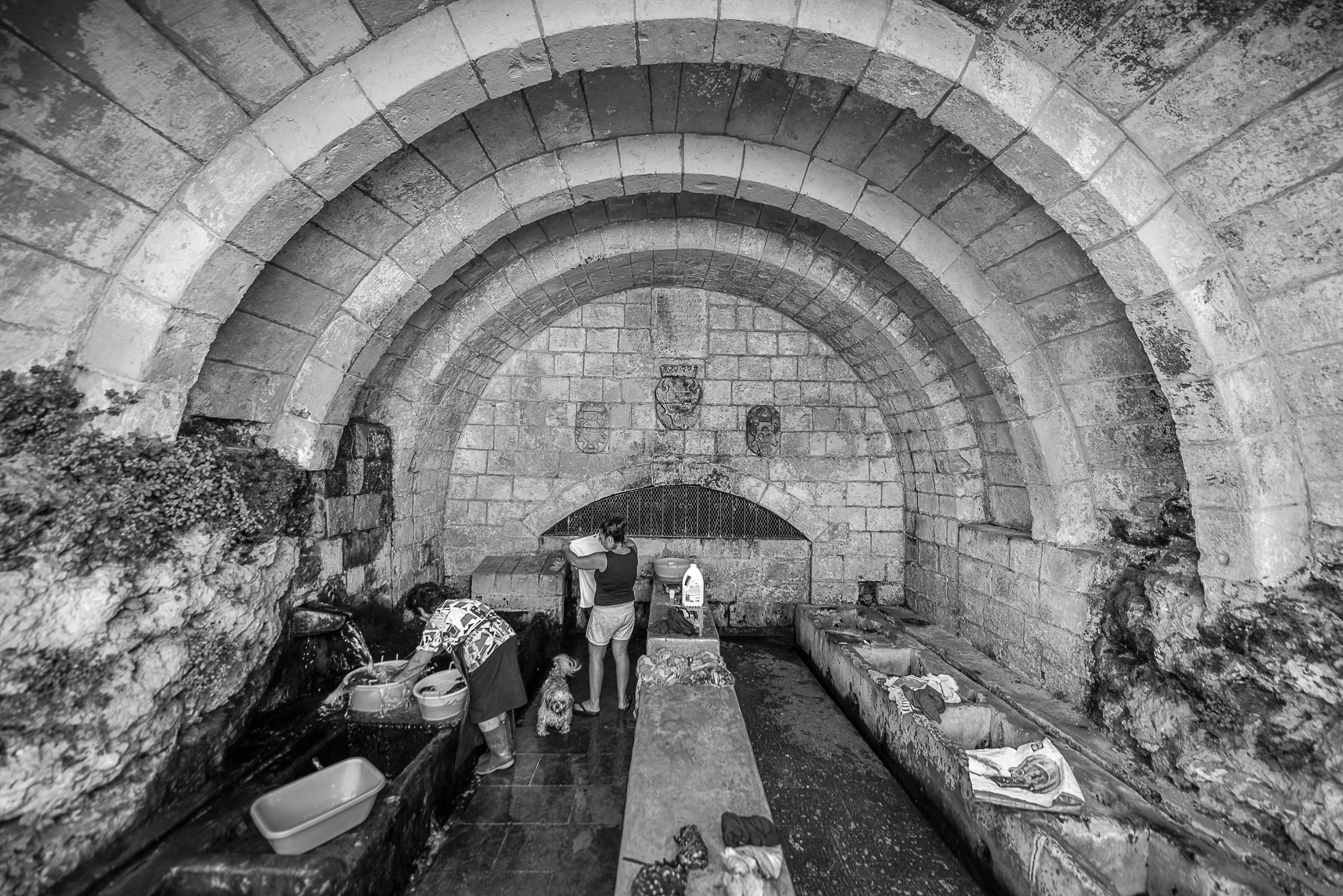 Fontana, a small village in Gozo, is named after natural freshwater springs found in the area. In the 16th century, the Knights of Malta built arched shelters over the springs which were used as wash houses. This media is about Maltese cultural property with inventory number 00004.